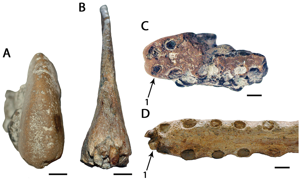 Comparison between Ornithocheirus simus and Tropeognathus mesembrinus. A and C Ornithocheirus simus, holotype CAMSM B54428 (Albian, Cambridge Greensand), anterior part of the rostrum A anterior view C ventral view B and D Tropeognathus mesembrinus, holotype BSP 1987 I 46 (Aptian / Albian, Romualdo Formation), anterior part of the rostrum B anterior view D ventral view. Arrows and numbers mark the position of the first pair of alveoli. Scale bar = 10 mm.